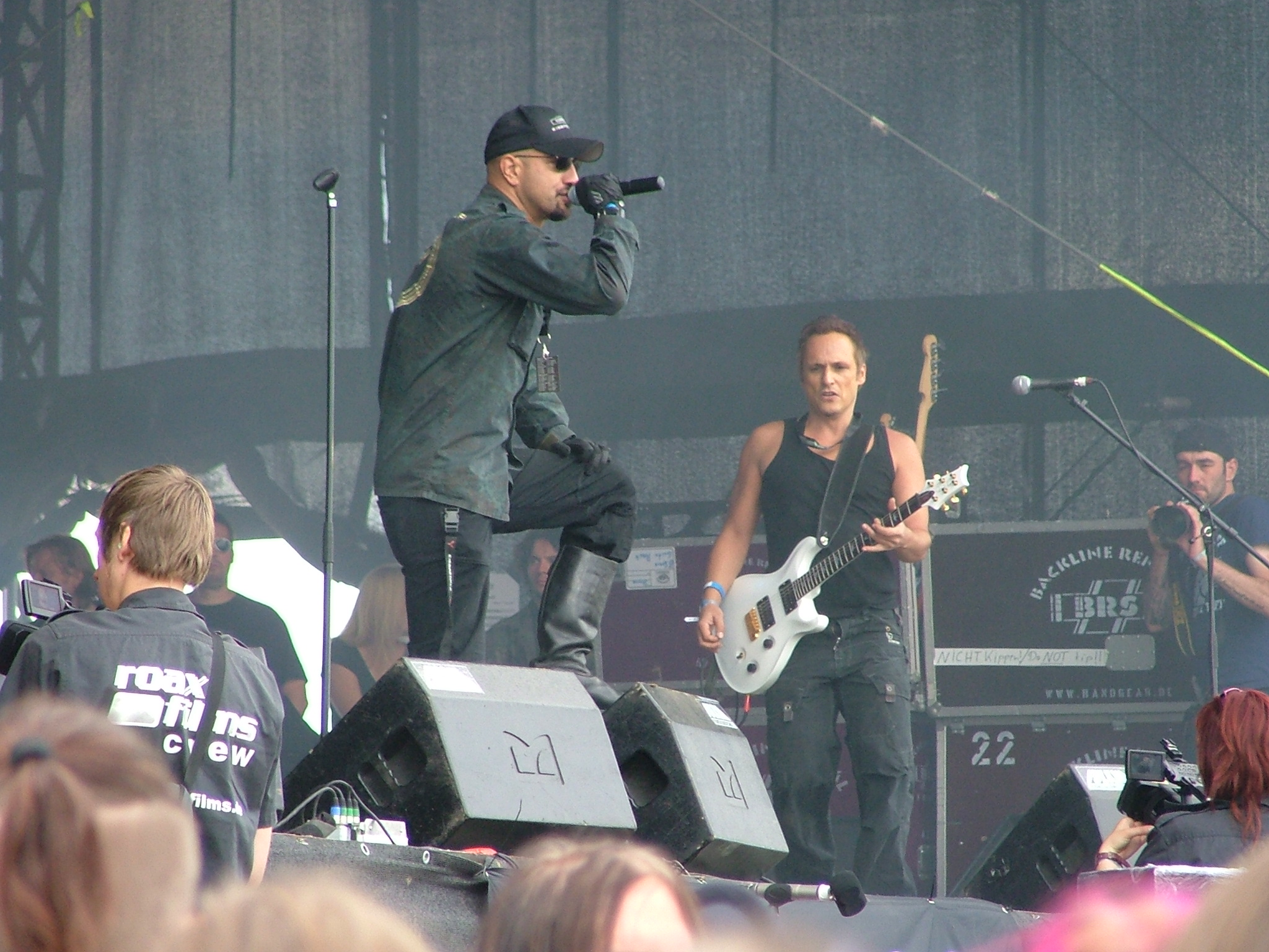 German metal/electronic music band Eisbrecher